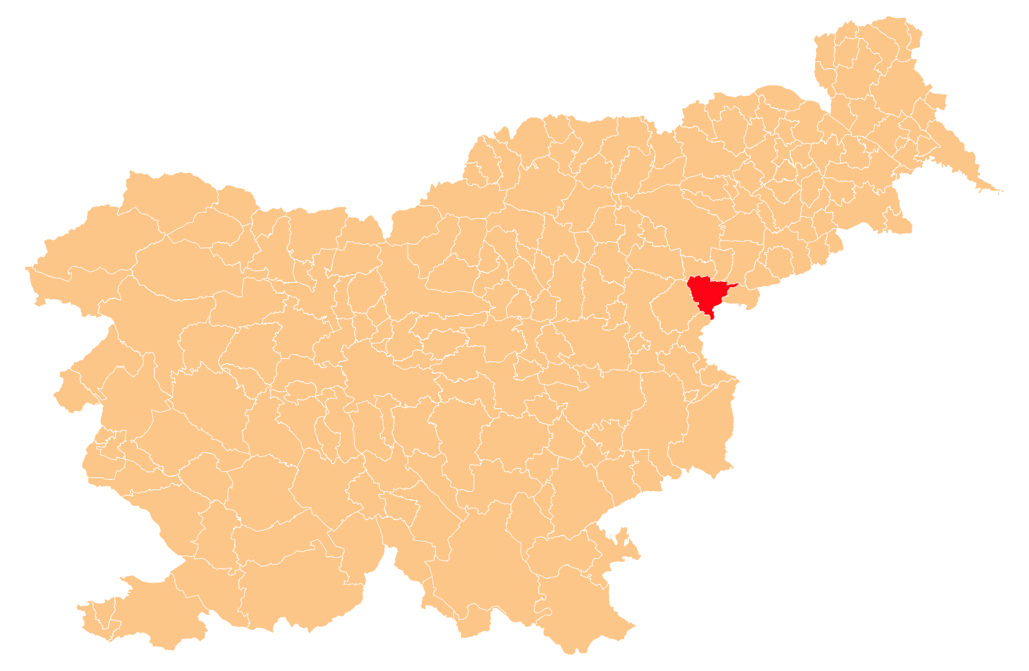 The extent of Rogaška Slatina municipality.